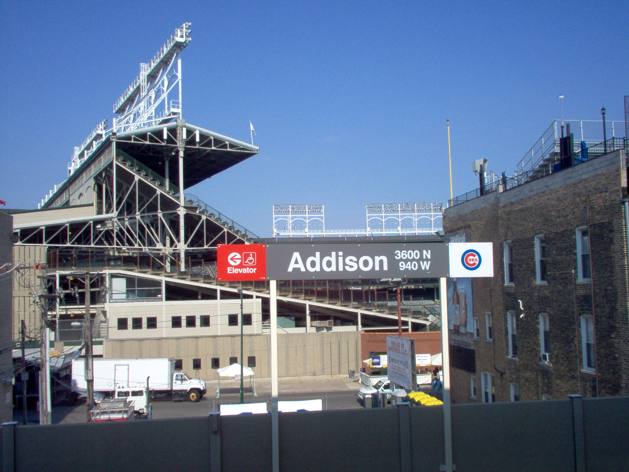 Photo by Gerald Farinas of the Addison train station of the Chicago Transit Authority with Wrigley Field in the background, taken on July 8, 2006. 03:04, 9 July 2006 . . Gerald Farinas . .2048 x 1536 (890,016 bytes)